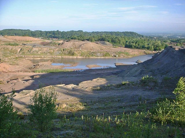 Clay Pit This old clay pit was almost disused until the last year or so, when activity resumed and a lot of spoil has been moved, presumably with a view to housebuilding. The area north of the pit has been built on in the last decade or so. The pool was used by anglers.